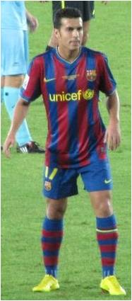 Pedro Rodríguez Ledesma during 2009 FIFA Club World Cup